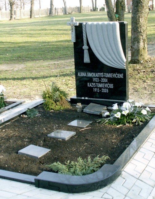 Grave of actors Kazys Tumkevičius and Albina Simokaitytė, Lithuania